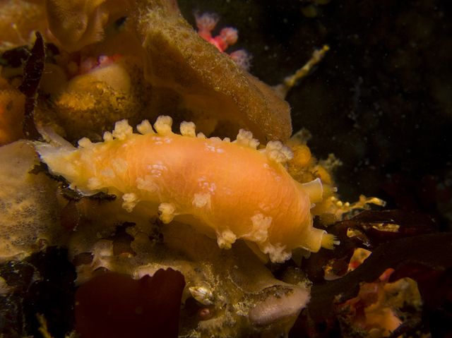 Taken at Star Wall on the Atlantic Coast of the Cape Peninsula near Hout Bay. Used an Olympus 7070. Length around 4cm. Depth 18m